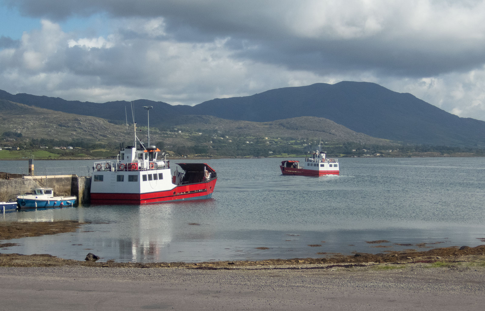 The Bere Island ferry. There are two vehicle ferries to Bere Island. This is the westerly one, on its way back to Castletown Bearhaven.